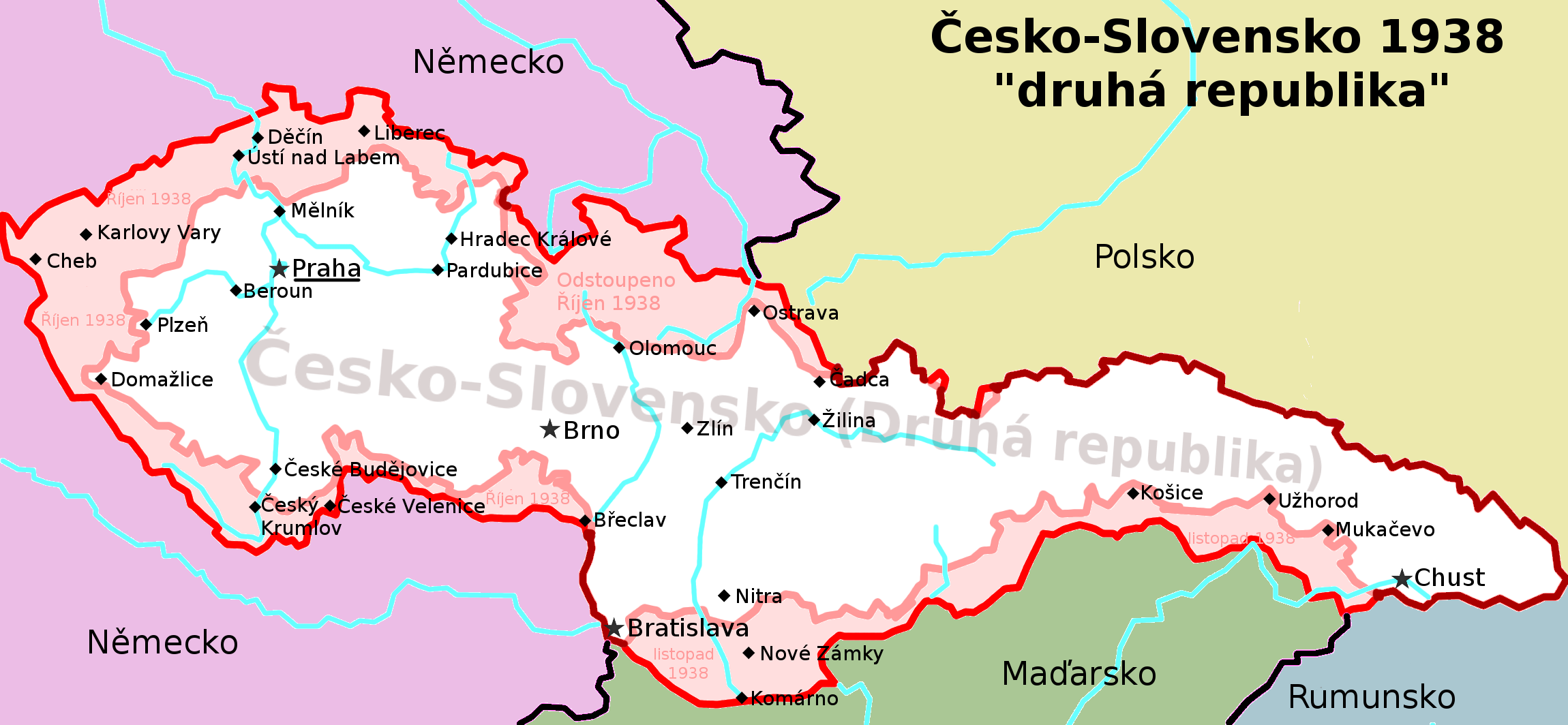 Czechoslovak republic in the end of 1938 after territorial losses caused by Munich agreement and other agreements with neighboring countries. Boundaries Dark red - no changes during 1938 Red - boundaries changed by territorial losses, former Czechoslovak borders Dark pink - New borders of Czecho-Slovakia Black - Boundaries of other countries Territory White - Territory of Czechoslovakia after Munich and other agreements Light pink - Territorial losses of Czechoslovakia during October and November 1938 Light purple - Germany Pale green - Hungary Dark orange - Poland Pale blue - Romania Towns and cities Star - Regional capitals Diamond - other selected cities